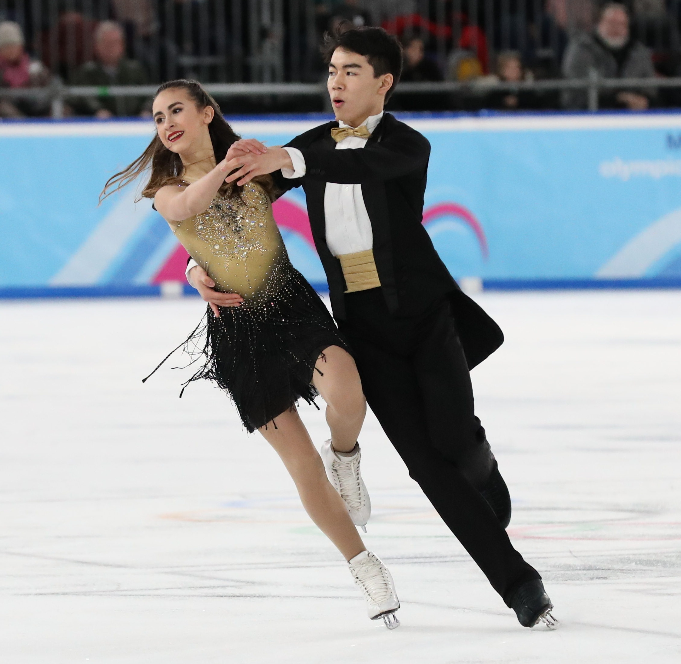 Ice Dance Rhythm Dance at the 2020 Winter Youth Olympics in Lausanne